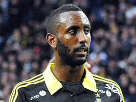 Henok Goitom, AIK striker